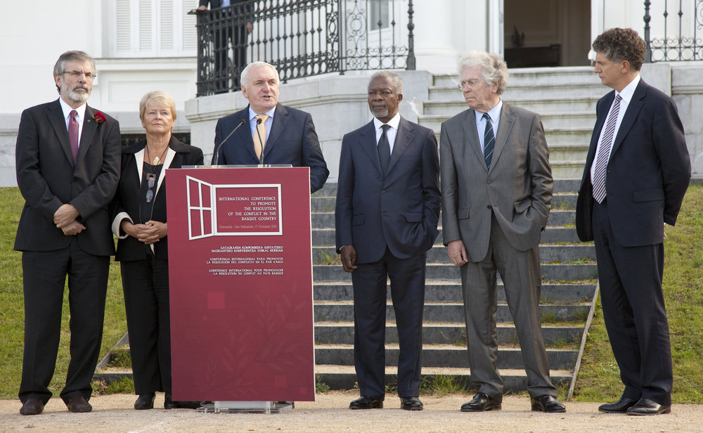 Bertie Ahern reading the Declaration after the International Conference to Promote the resolution of the conflict in the Basque CountryEuskara: Bertie Ahern Gatazkaren konponbidea sustatzeko nazioarteko konferentziako adierazpena irakurtzen